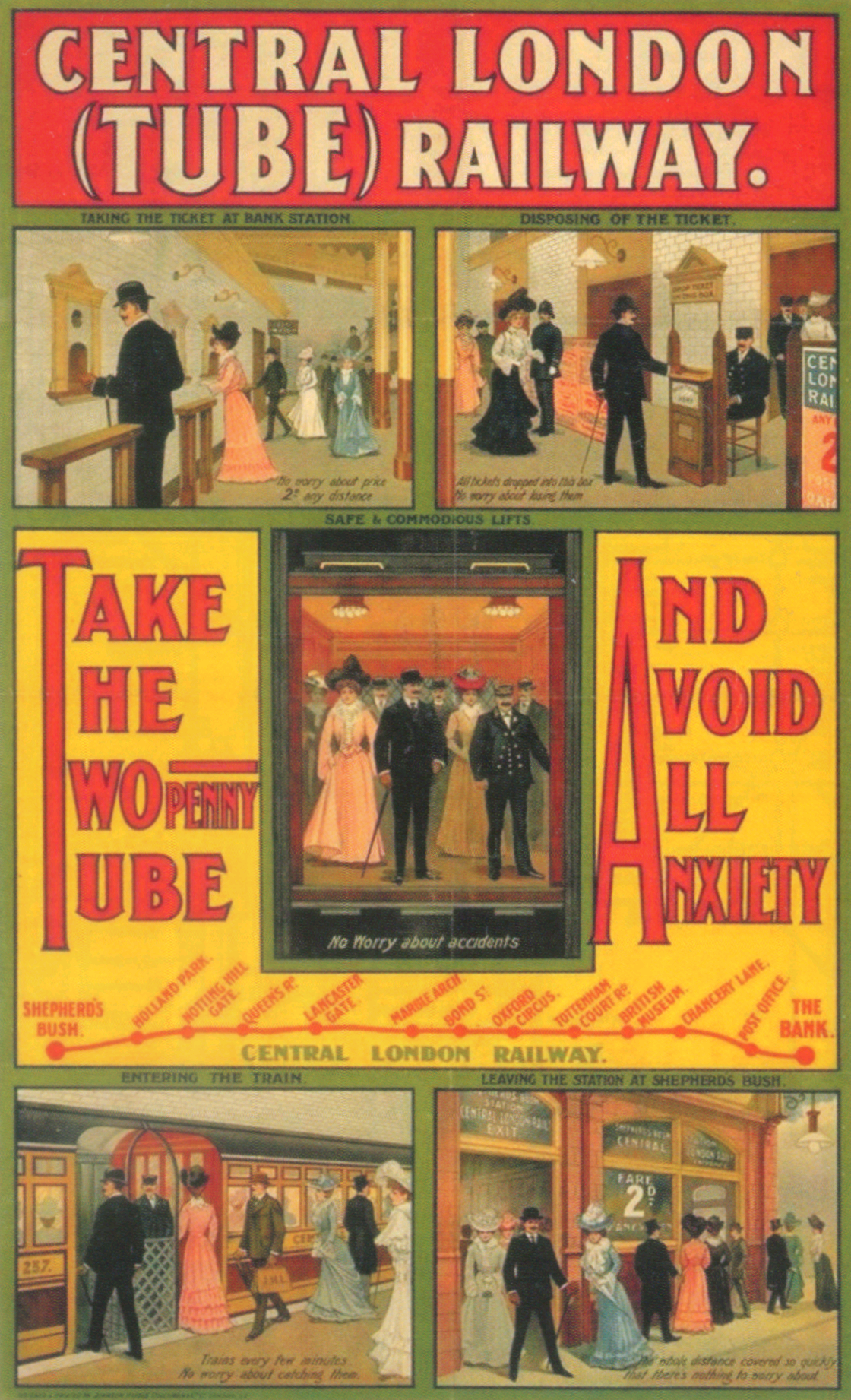 A poster for the Central London Railway (now the London Underground's Central line) extolling the ease of the railway's use. Online details of poster at London Transport Museum poster archive